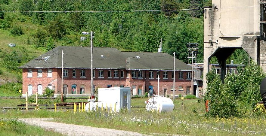 Derelict railway station in Hornepayne, Ontario, Canada